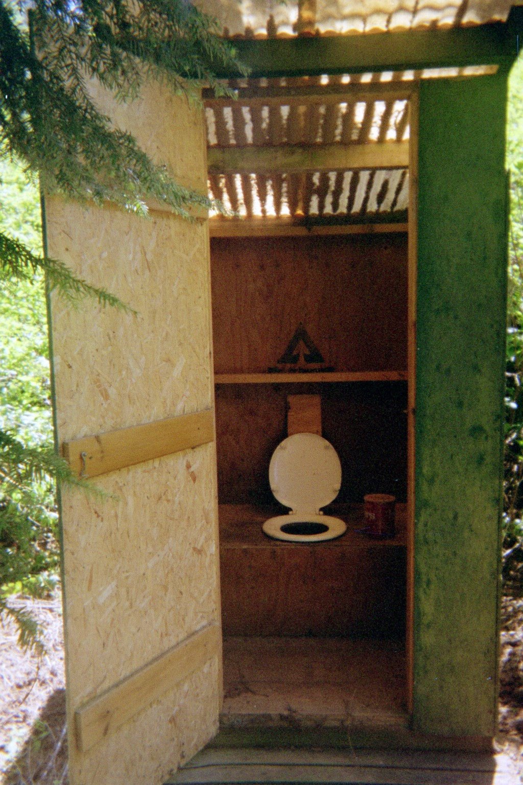 Outhouse at Crabapple Lake